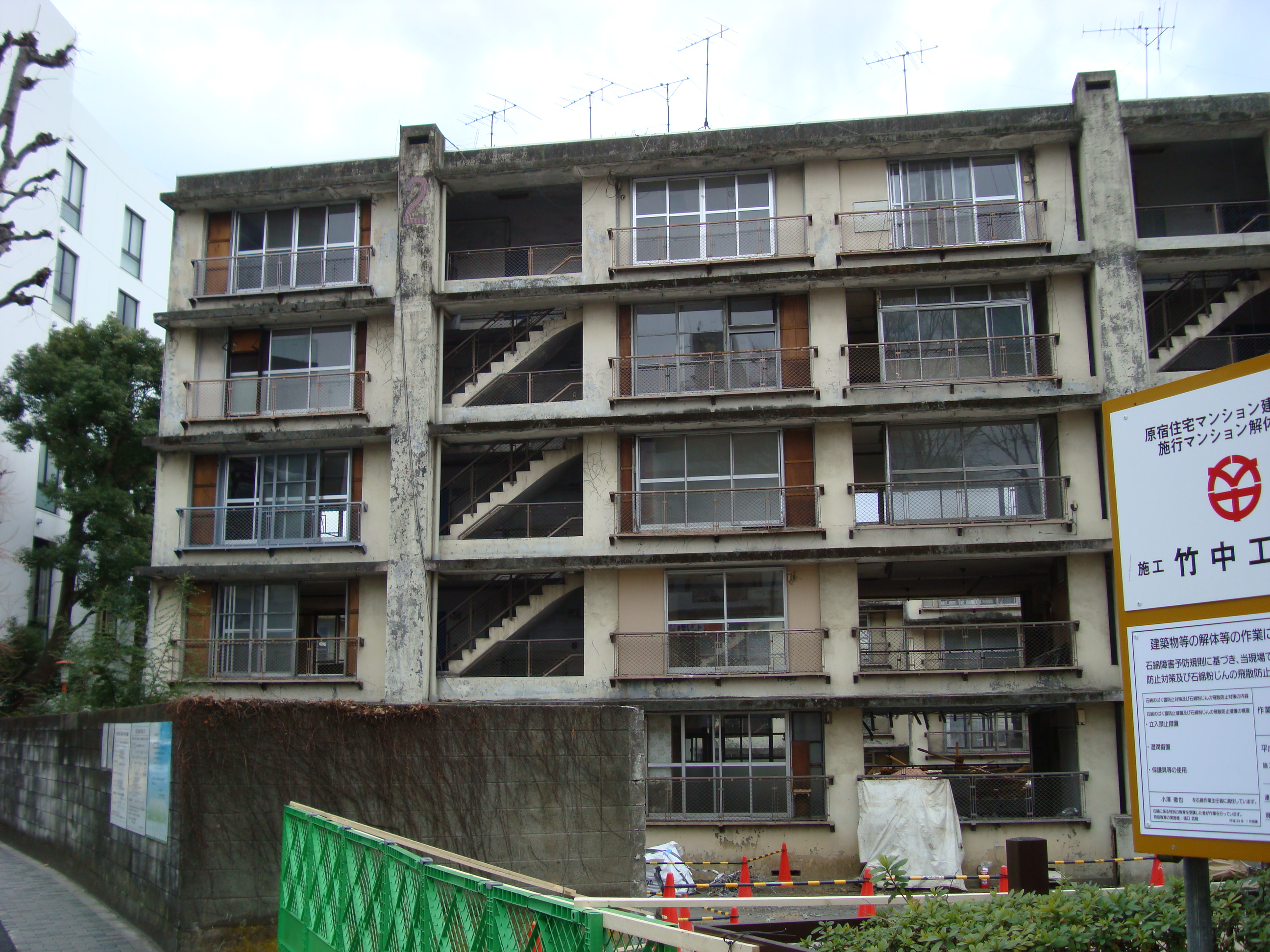 Harajuku Danchi apartment buildings under demolition. Harajuku, Tokyo